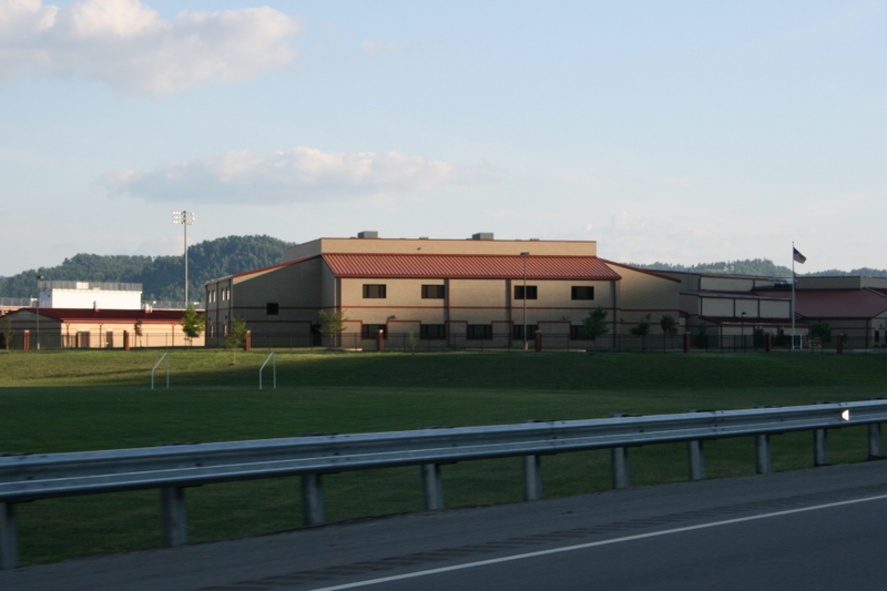 Portsmouth West High School (including football field), West Portsmouth, Ohio, United States (viewed from U.S. 52 west of Portsmouth, Ohio)